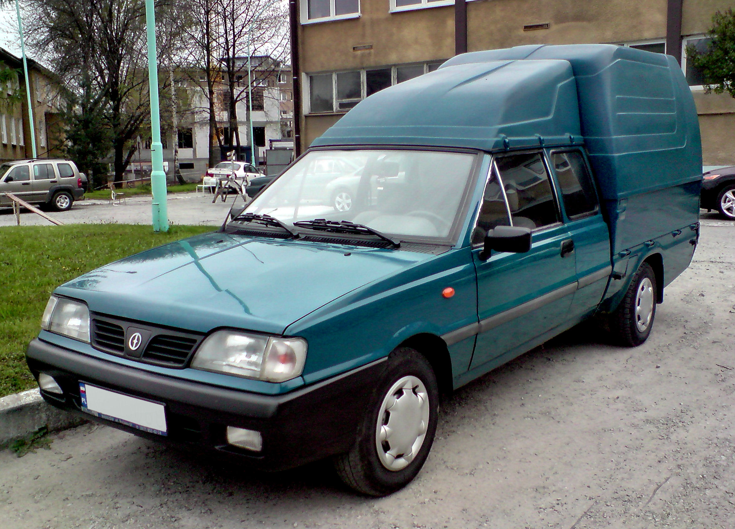 Daewoo-FSO Polonez Truck Plus seen in Rzeszów, Poland.